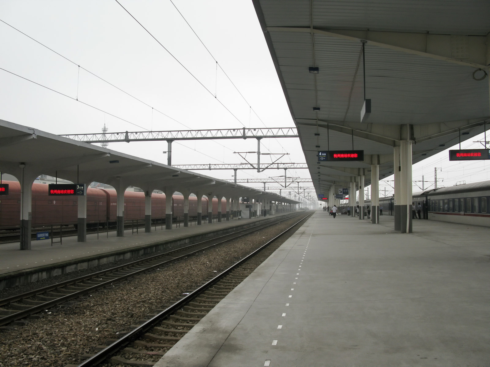 Platforms of Hangzhou South Railway Station (Xiaoshan Station), view towards Hangzhou East Railway Station (demolished)